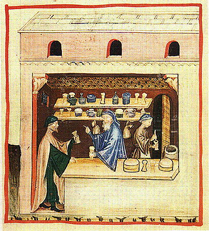 Theriac (Triacha) Nature: Warm and dry. Optimum: The kind that frees the rooster from poison and has been aged for ten years. Usefulness: Good against poisons and both cold and warm illnesses. Dangers: When it is over ten years old it causes insomnia. Neutralization of the Dangers: With cooling substances such as barley-water. It is primarily good for cold temperaments, for old people, in Winter, in cold regions and, if necessary, anywhere else. From the Tacuinum of Vienna